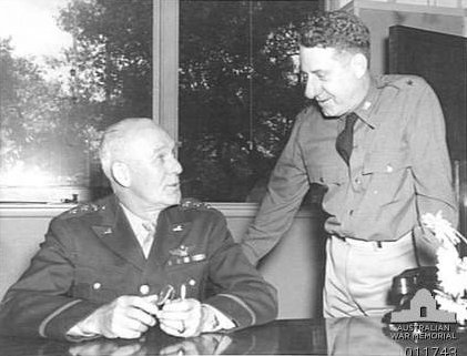 1942-03-18. Lt. Gen. George H. Brett, Deputy Supreme Commander and Chief of Allied Air Forces in the South West Pacific, with his chief of staff, Brigadier General Stephen Chamberlin.